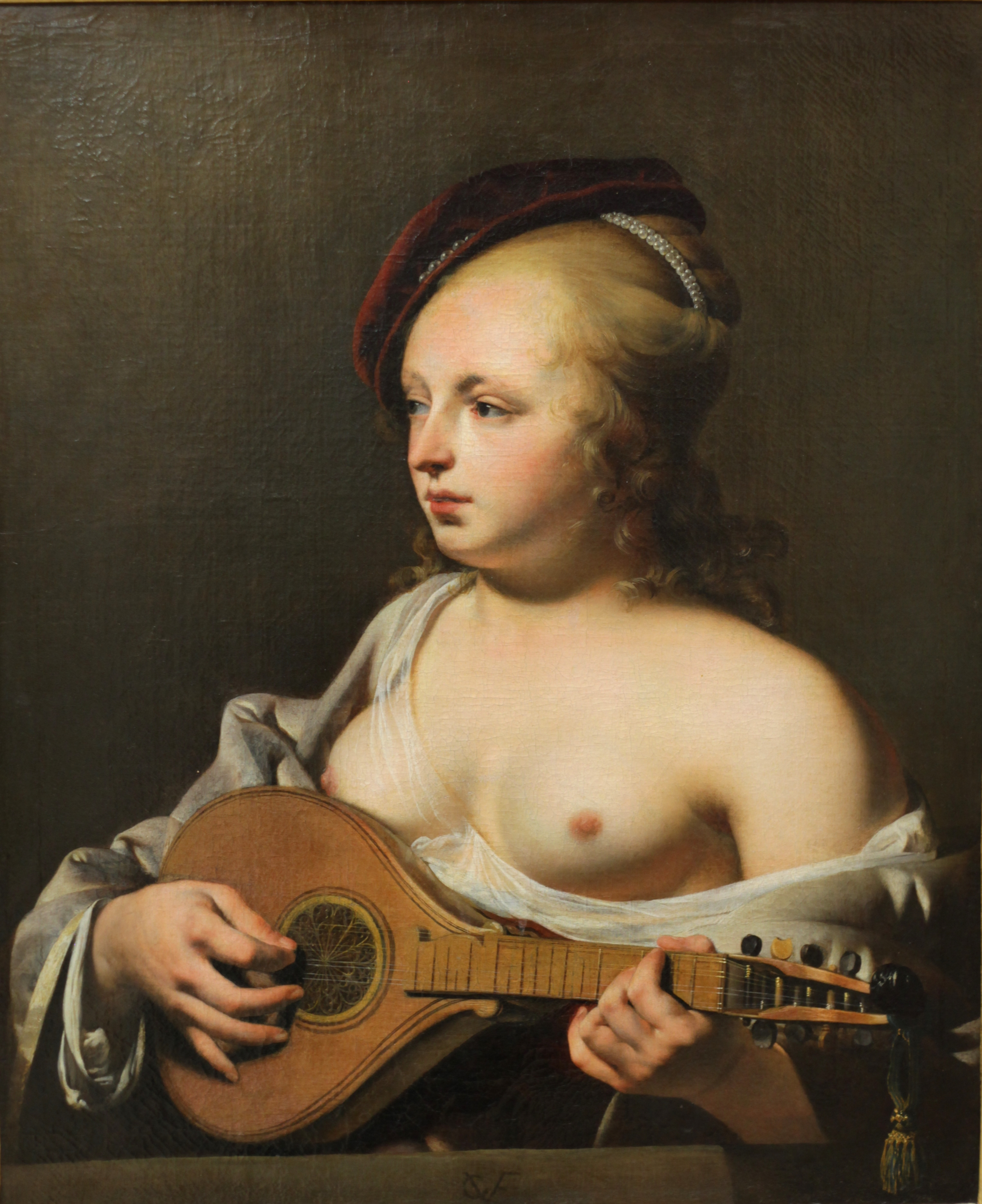 Young woman playing a cithern